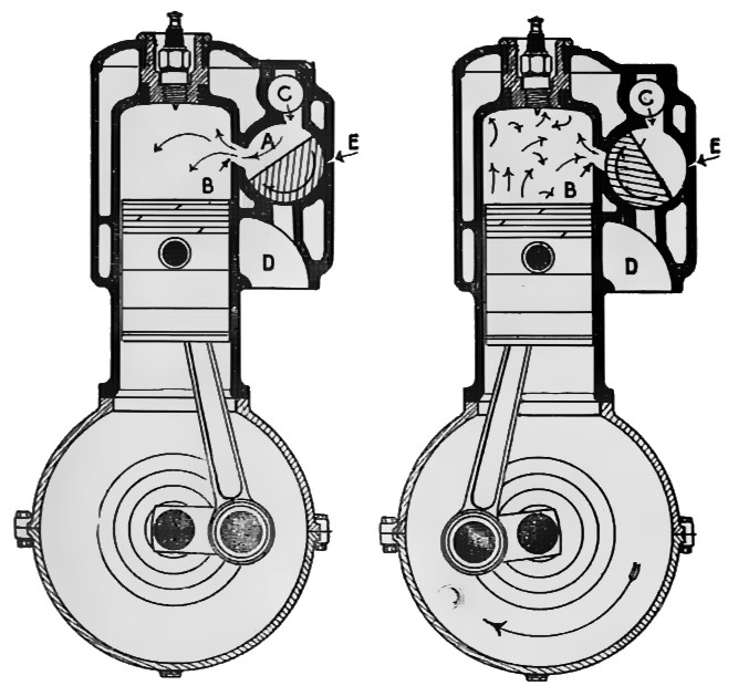 Darracq rotary-valve engine, sections (Autocar Handbook, Ninth edition).jpg